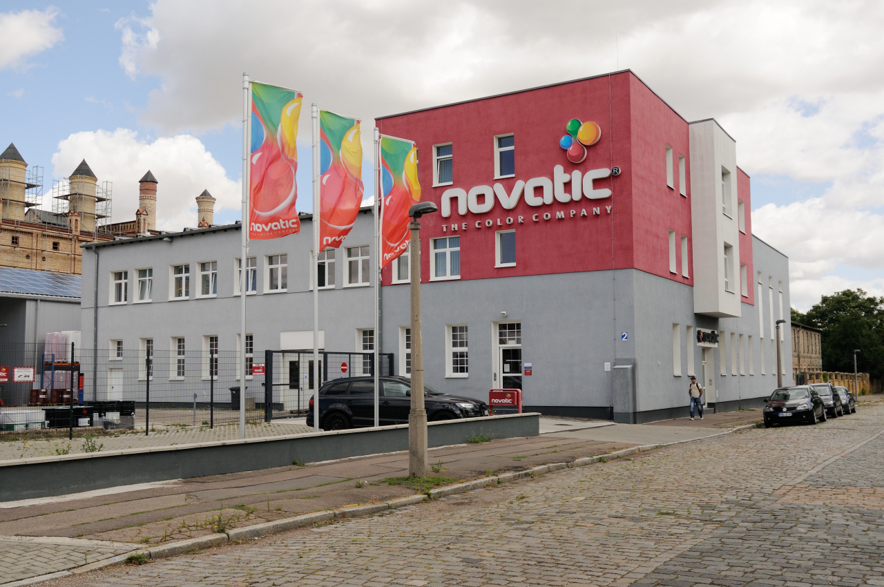 novatic Halle, view